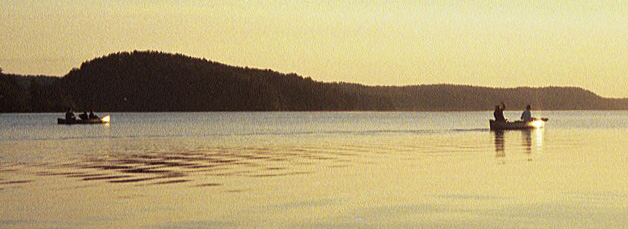 Two canoes paddling into the sunrise on Saganaga Lake, Boundary Waters Canoe Area Wilderness, Minnesota, U.S.A. Photo created by Seth G. Cowdery on July 25, 1999. (628 x 229 pixels)